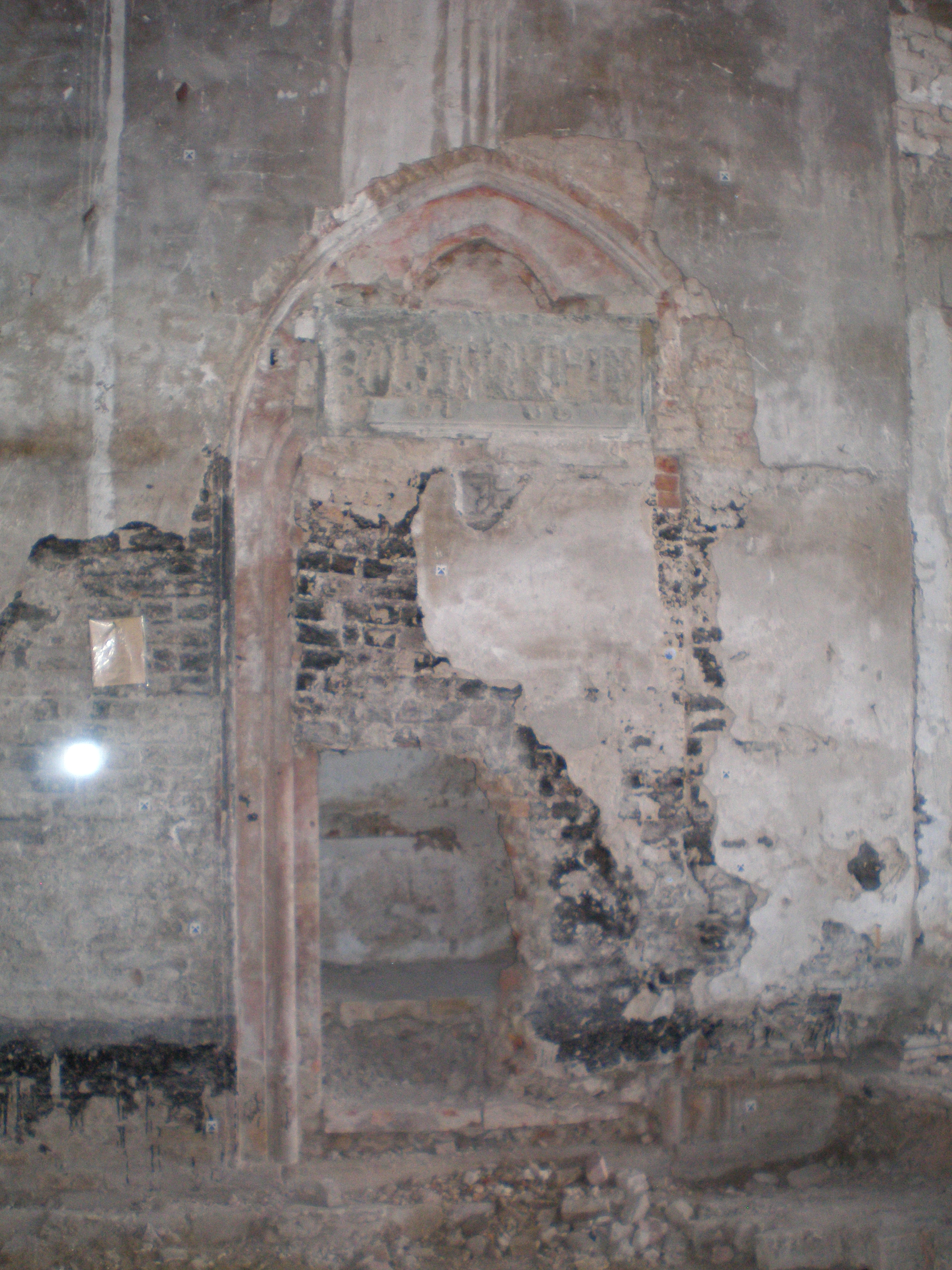 Ancient gothic door inside the church of San Francesco del Prato in Parma